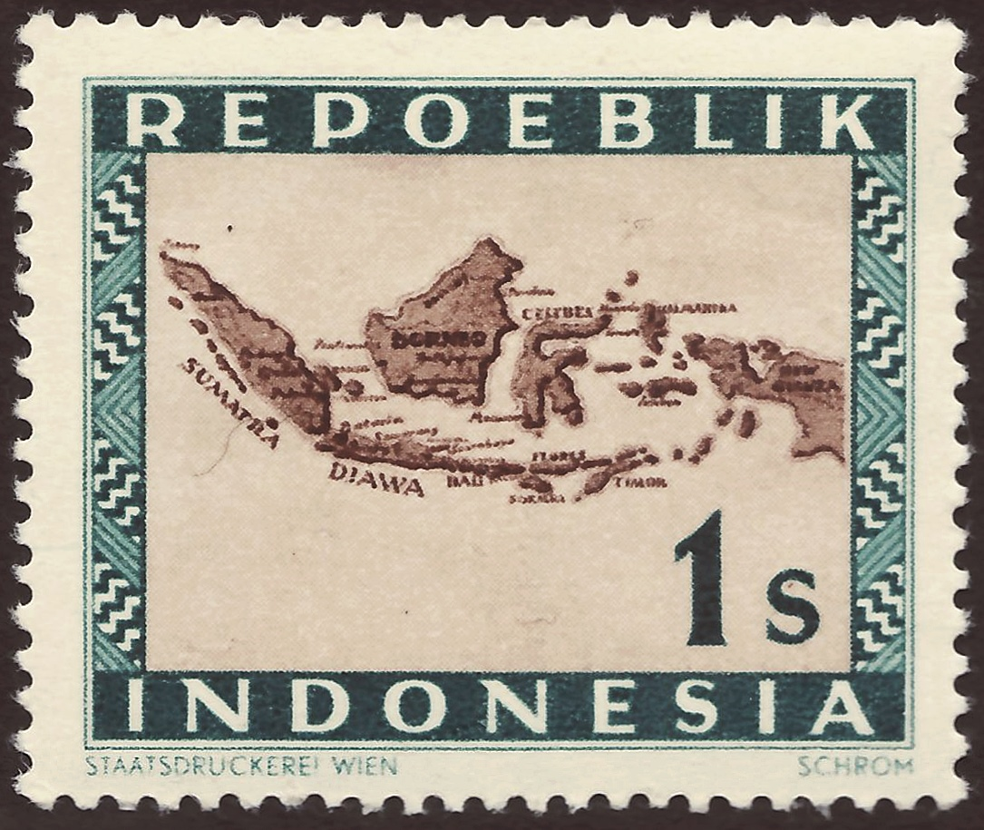 Stamp of Indonesia (Republic); 1948; regional stamp of the so-called "Vienna issue"; stamp motive with a framed map of Indonesia; country inscription in Netherlandic language: "REPOEBLIK INDONESIA"; mint stamp Stamp: Michel: No. L1; Scottt: No. 1 Color: brown with black blue-green frame Watermark: none Nominal value: 1 S (Sen) Postage validity: from 15 December 1948 until ? (Only postal valid in a part of the then Indonesia.) Stamp picture size (printed area without signature öine): 29.0 x 22.5 mm